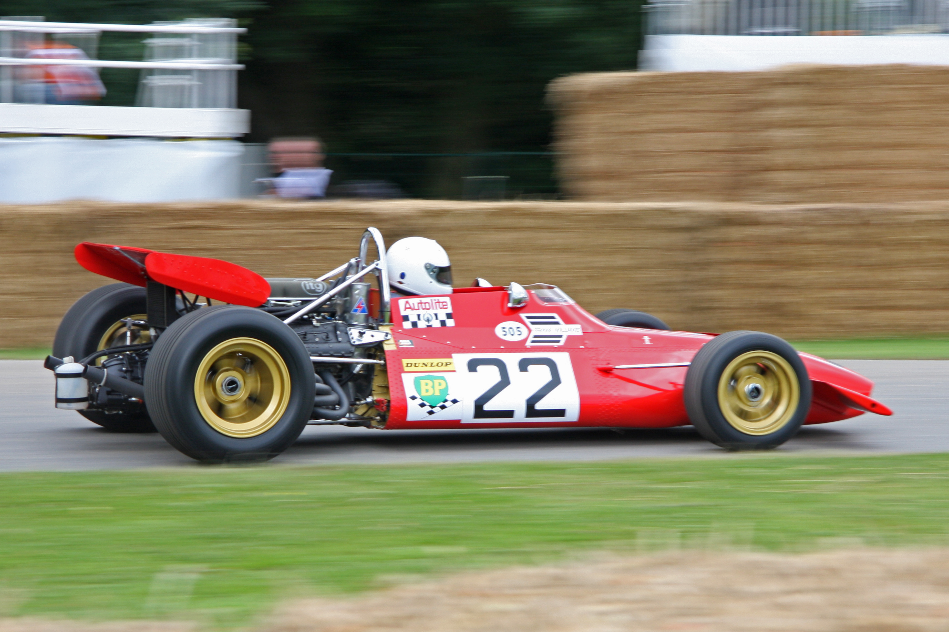 De Tomaso-Cosworth Tipo 505 Built 1970. 3 litre V8